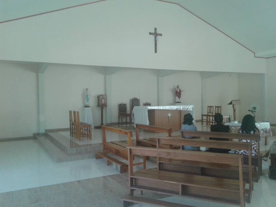 Ioannes Paulus II Monument in Tasitolu